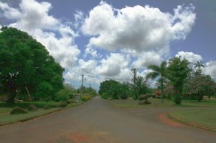 Hope Vale, Cape York, Queensland, Australia